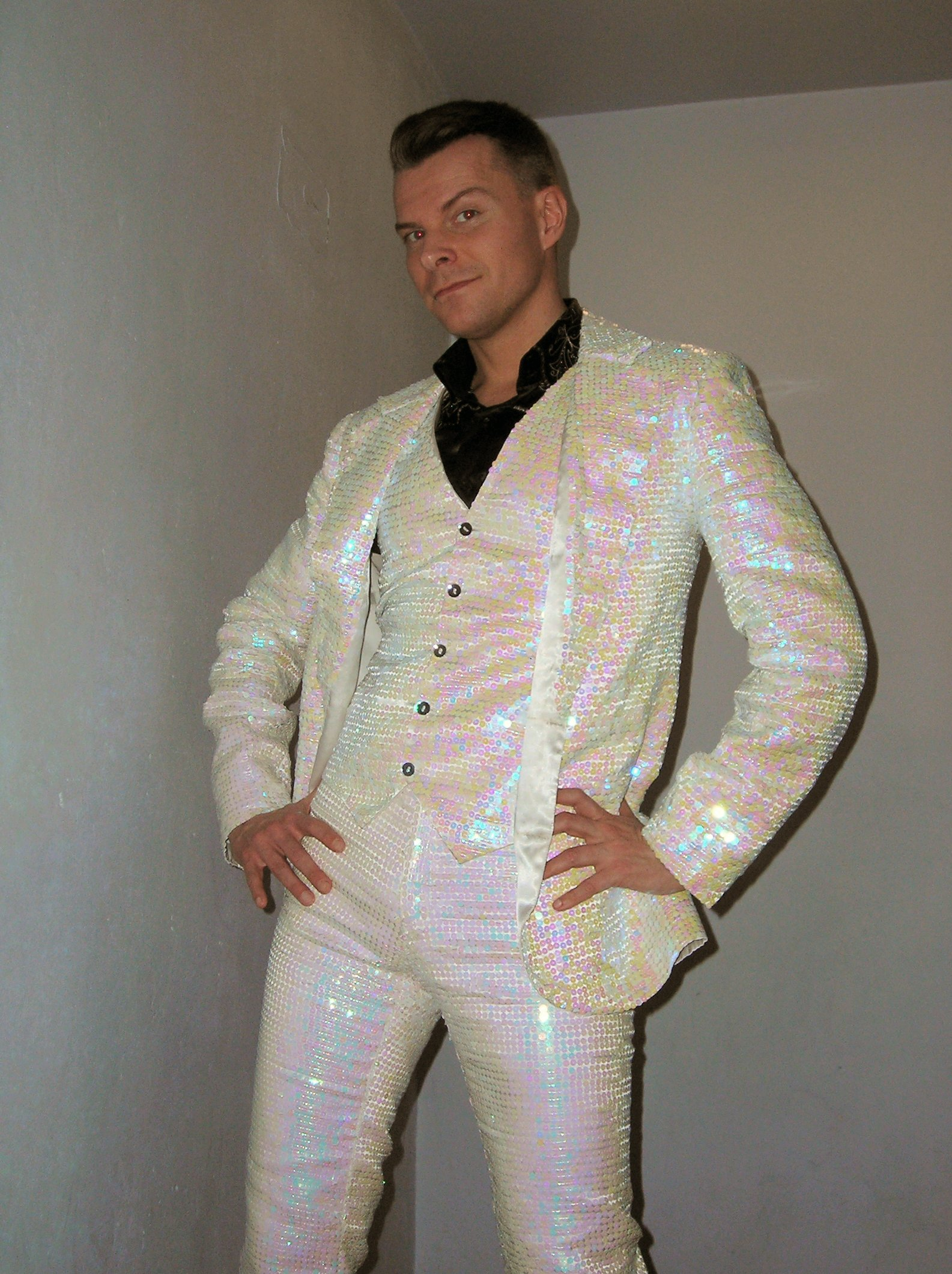 Icelandic pop singer, songwriter and disc jockey Páll Óskar Hjálmtýsson (born 16 March 1970), known internationally as Páll Óskar and Paul Oscar, photographed on 25 April 2008 before appearing on stage at the Eurovision party at the Scala nightclub in London, England, UK.